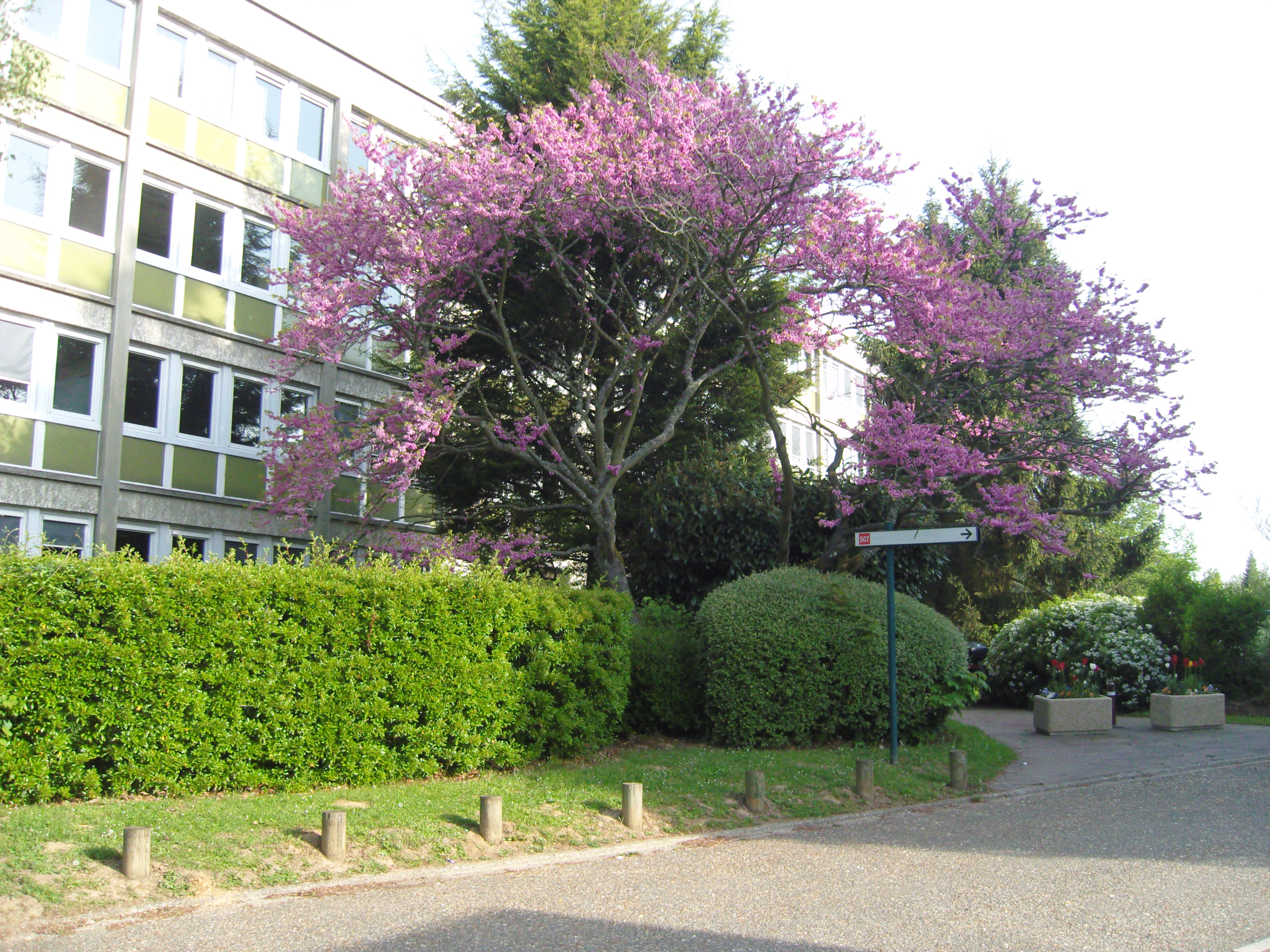 Building of the "Institut du Développement et des Ressources en Informatique Scientifique" (IDRIS)- Orsay- France